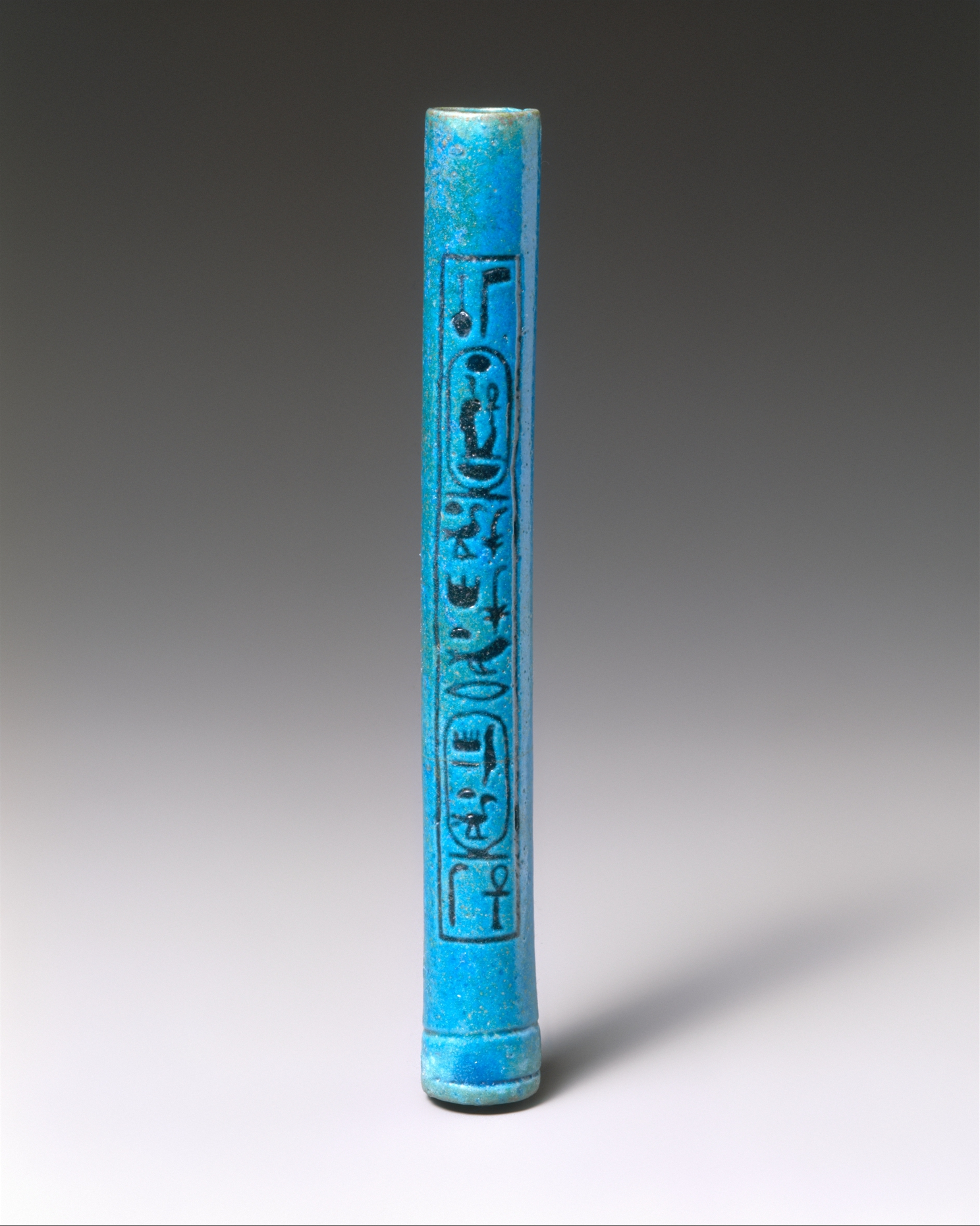 Kohl Tube with the names of Amenhotep III and his daughter Sitamun